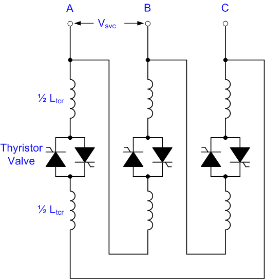 Typical three-phase, delta-connected TCR